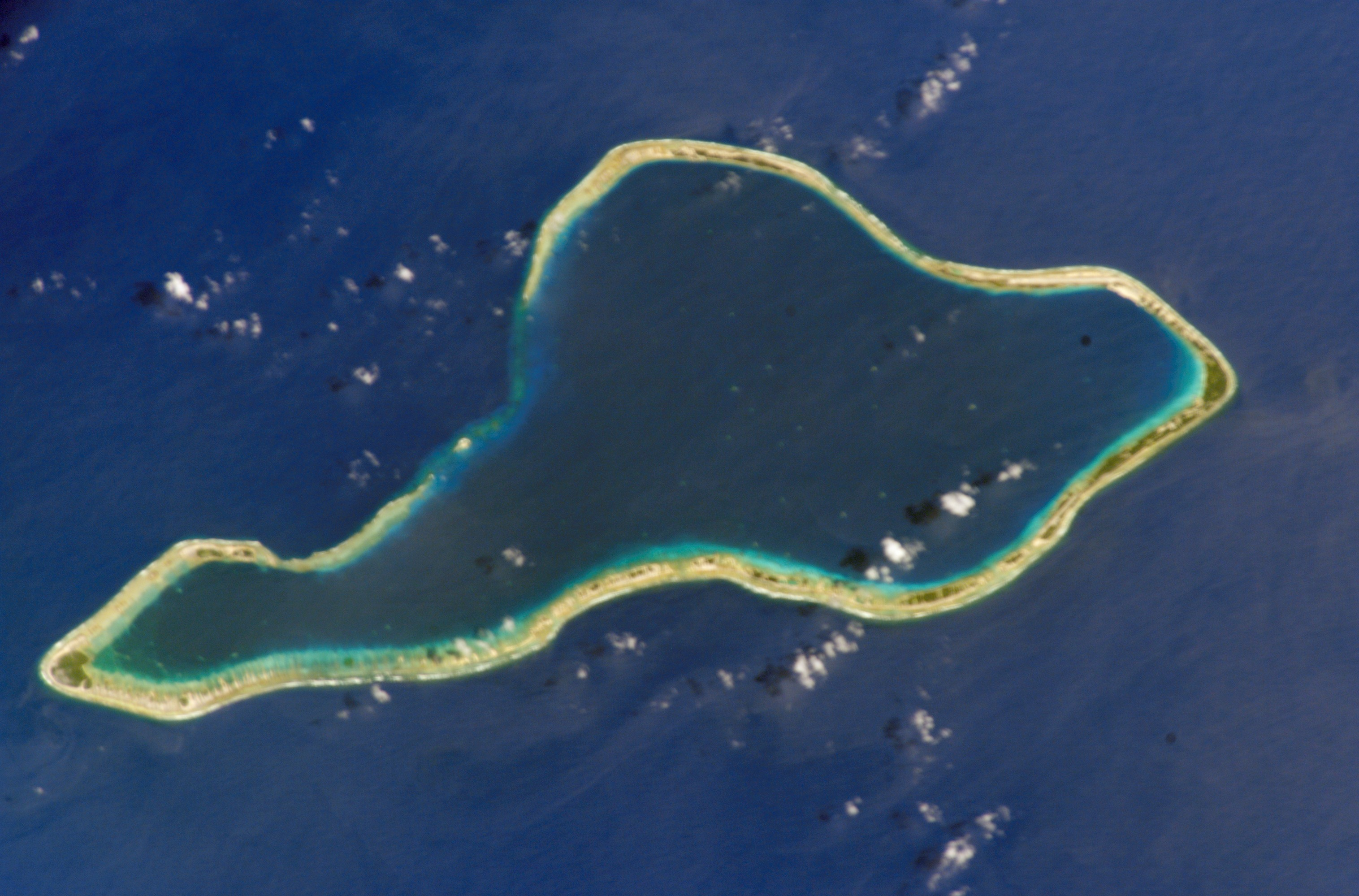 NASA astronaut image of Mururoa Atoll (Tuamotu Archipelago, French Polynesia) in the Pacific Ocean